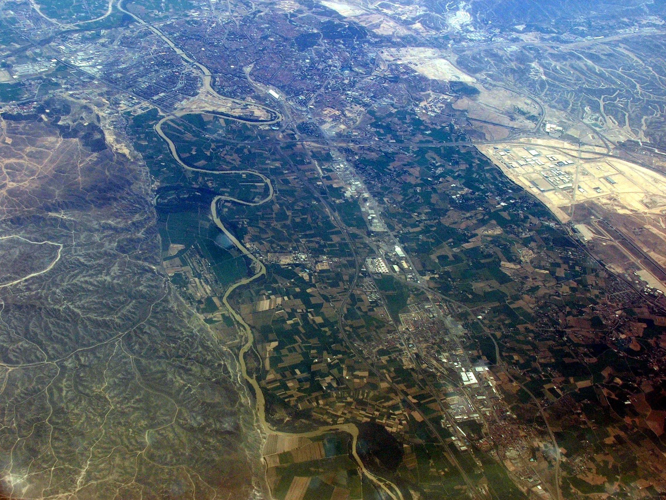 Aerial View of Zaragoza and its airport in Spain. Flying from Prague to Madrid.